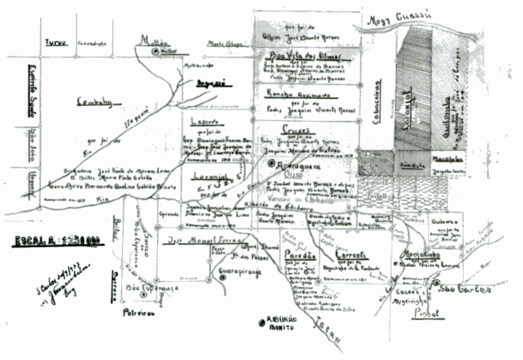 Sketch 703, extracted from the "Legal process of division of the Sesmaria do Ouro" [c. 1810], showing the situation of some sesmarias from Araraquara and São Carlos region. Copy made by engineer J. Tavares Silva, São Carlos, September 20, 1927. Document deposited at the Araraquara Museum, Brazil.